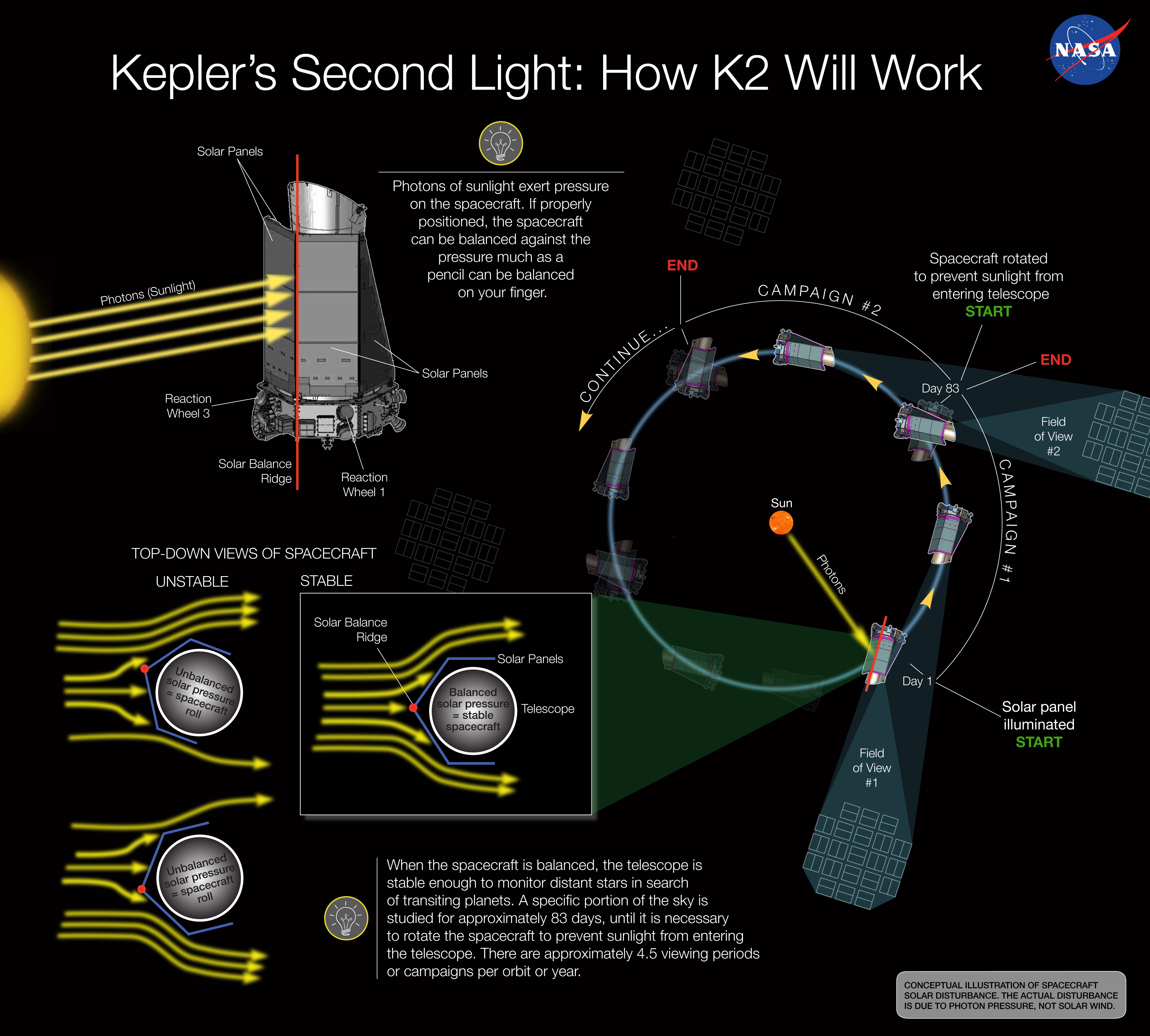 Kepler's Second Light: How K2 Will Work The conception illustration depicts how solar pressure can be used to balance NASA's Kepler spacecraft, keeping the telescope stable enough to continue monitoring distant stars in search of transiting planets. In May, Kepler lost the second of four gyroscope-like reaction wheels, ending new data collection for the original mission. A new mission concept, dubbed K2, would continue Kepler's search for other worlds, and introduce new opportunities to observe star clusters, young and old stars, active galaxies and supernovae. Using the sun and the two remaining reaction wheels, engineers have devised an innovative technique to stabilize and control the spacecraft in all three directions of motion. This technique of using the sun as the 'third wheel' to control pointing is currently being tested on the spacecraft. To achieve the necessary stability, the orientation of the spacecraft must be nearly parallel to its orbital path around the sun, which is slightly offset from the ecliptic, the orbital plane of Earth. The ecliptic plane defines the band of sky in which lie the constellations of the zodiac. K2 would study a specific portion of the sky for up to 83 days, until it is necessary to rotate the spacecraft to prevent sunlight from entering the telescope. Each orbit or year would consist of approximately 4.5 unique viewing periods or campaigns. The K2 mission concept has been presented to NASA Headquarters. A decision to proceed to the 2014 Senior Review – a biannual assessment of operating missions – and propose for budget to fly K2 is expected by the end of 2013. Page Last Updated: December 11th, 2013 Page Editor: Michele Johnson NASA Official: Brian Dunbar